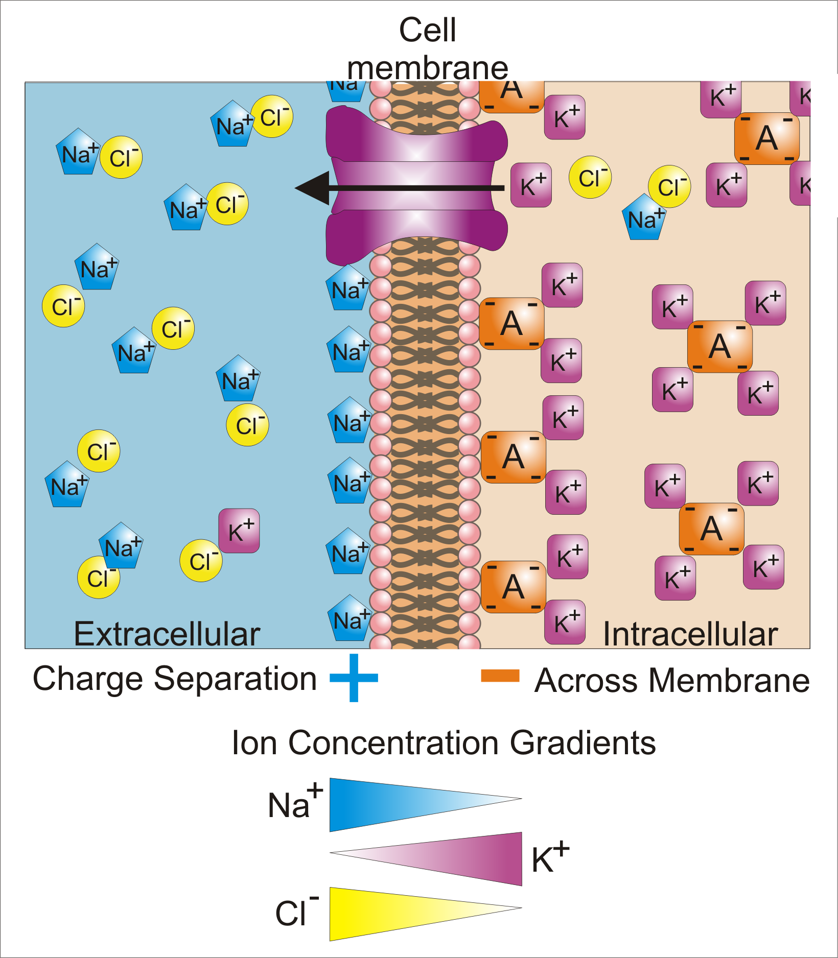 Diagram showing the ionic basis of the resting potential